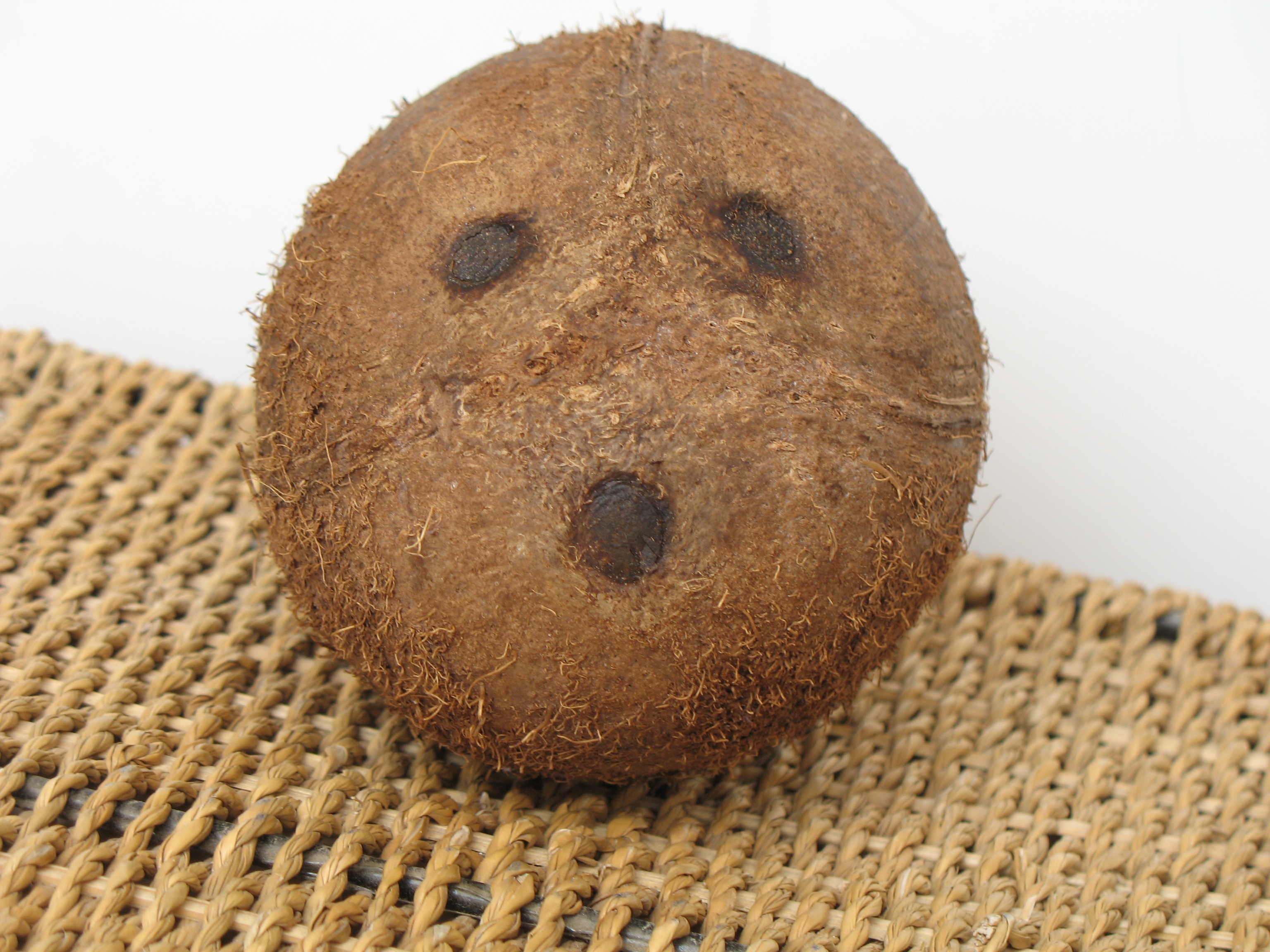 I can´t help but think that husked Coconuts have faces. The three dark spots that make the eyes and mouth are soft areas that can be open to extract the Coconut milk. Normally one is easier to open than the other two.